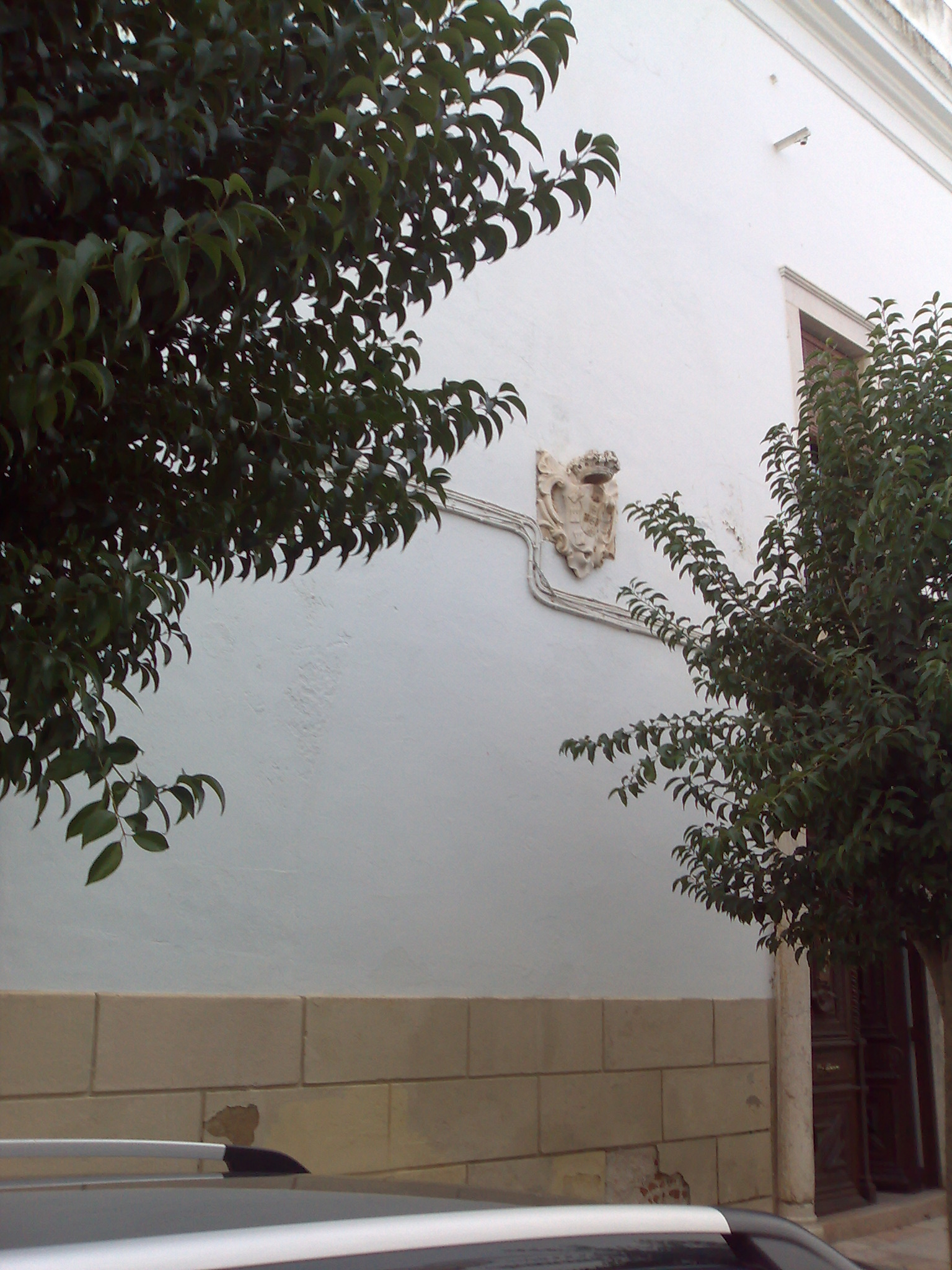 Santa Casa da Misericórdia de Olivença